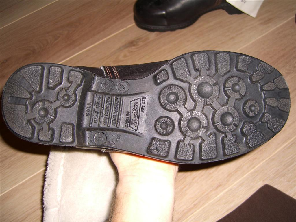 Blundstone 803 with unique dreadpattern. 1 of the 2 last known unworn pairs on the planet.